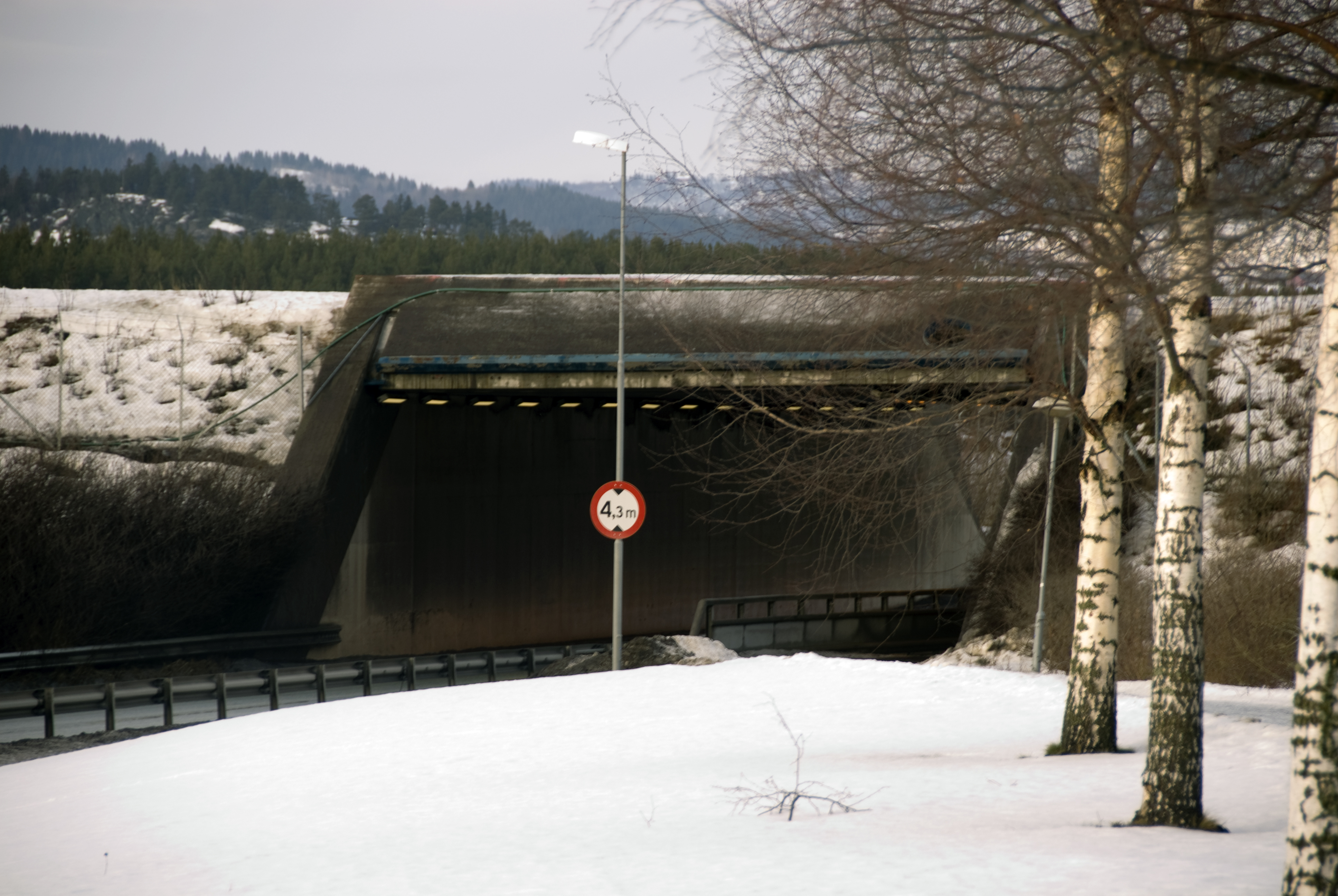 Værnes Tunnel on the E6 at Trondheim Airport, Værnes